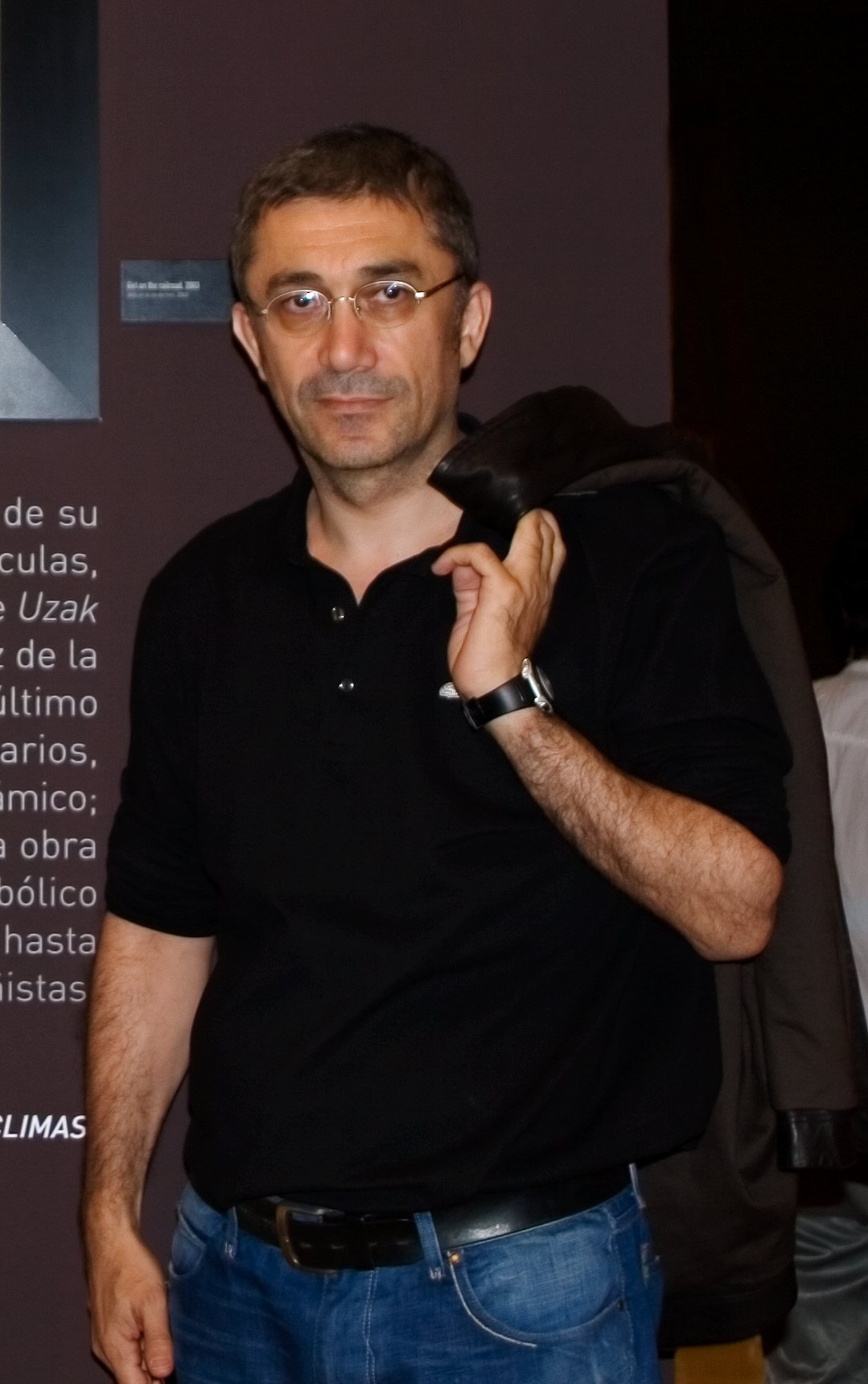 1SUR - 2007 El realizador y fotógrafo turco durante la inauguración de su exposición The turkish filmmaker and photographer during the opening of his exhibition